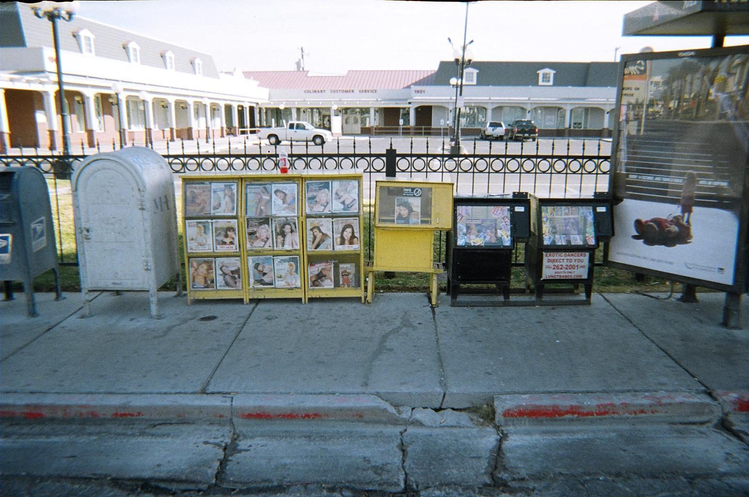 My photo taken Dec 2005 of boxes/flyers solely advertising for escorts on Las Vegas Blvd. near the Stratosphere Hotel & Casino